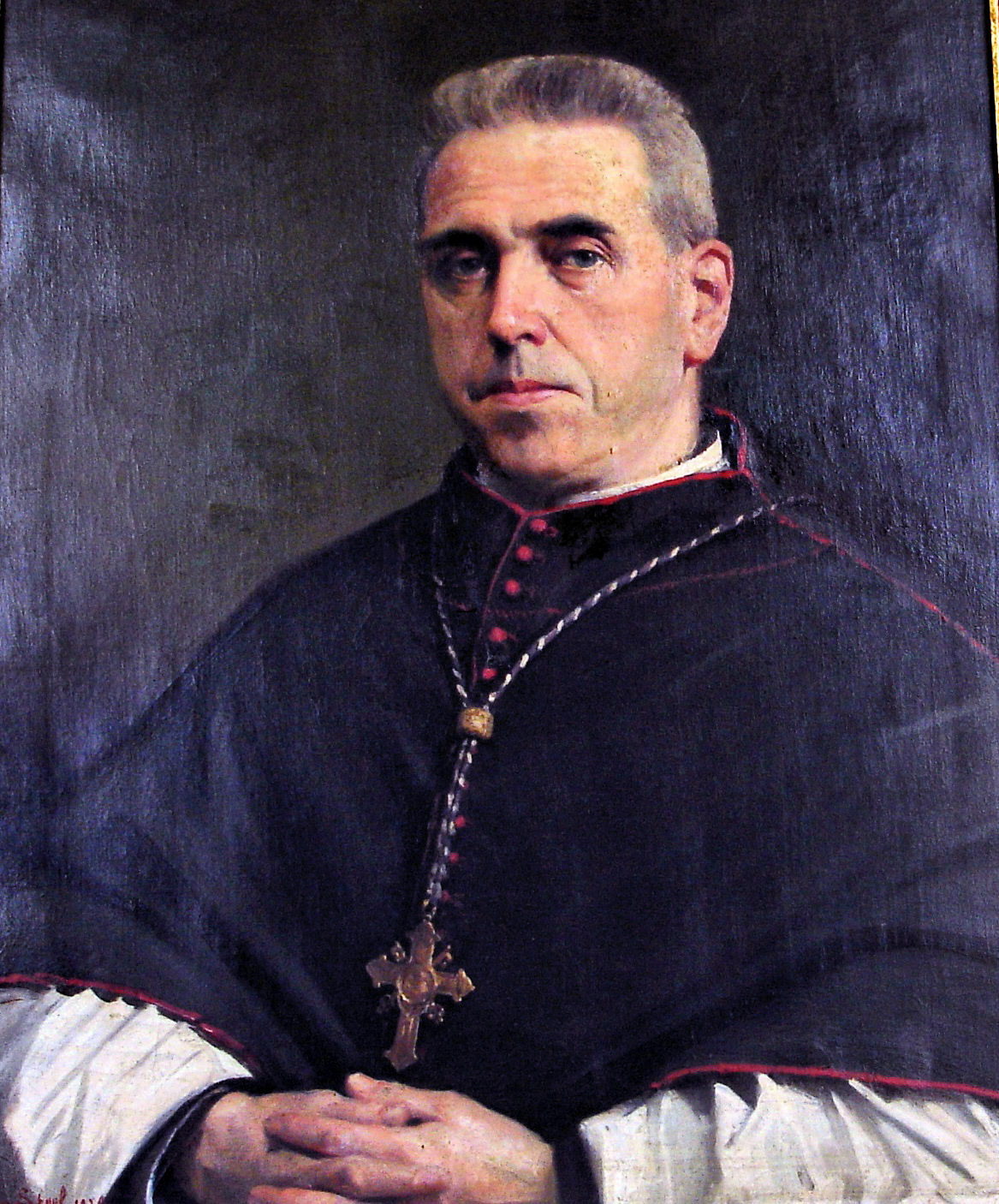 Canon Raymond De Groote (1874-1937), superior (1901-1910)